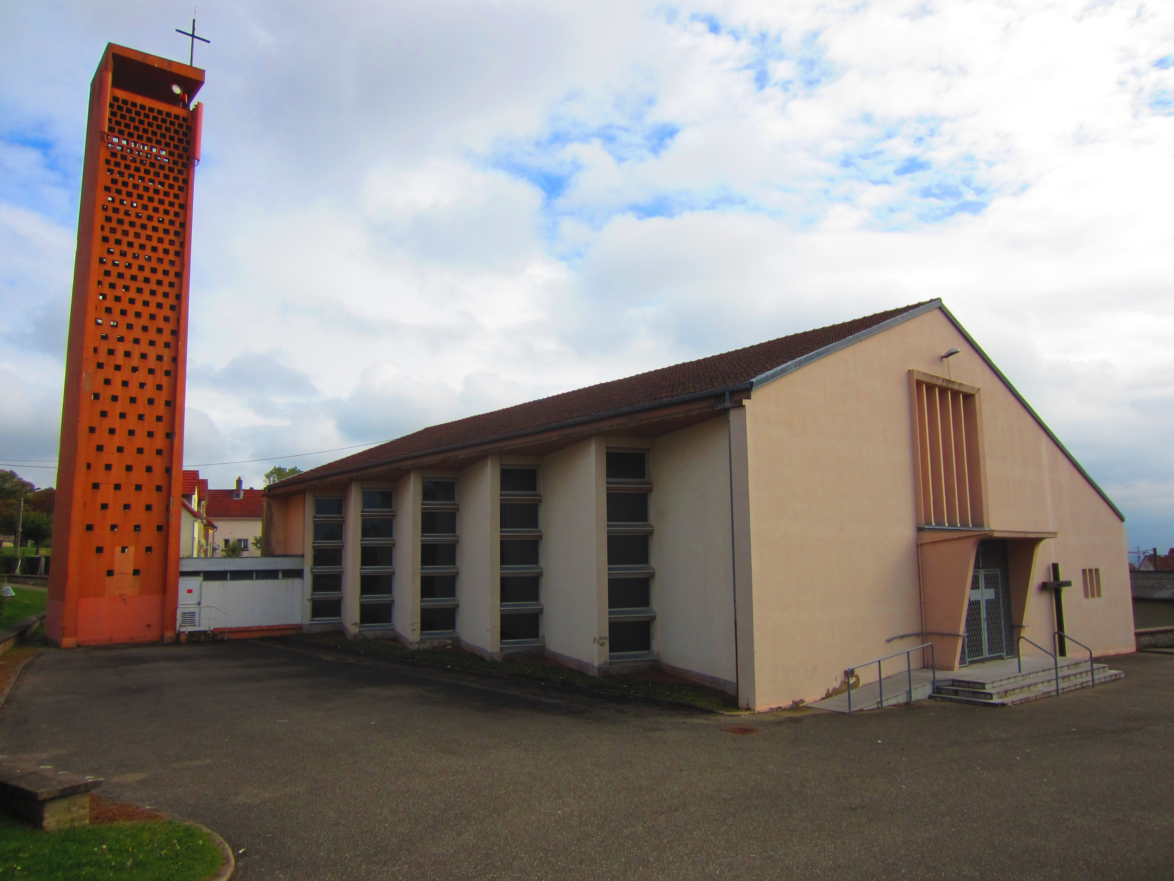 Faulquemont Cite church